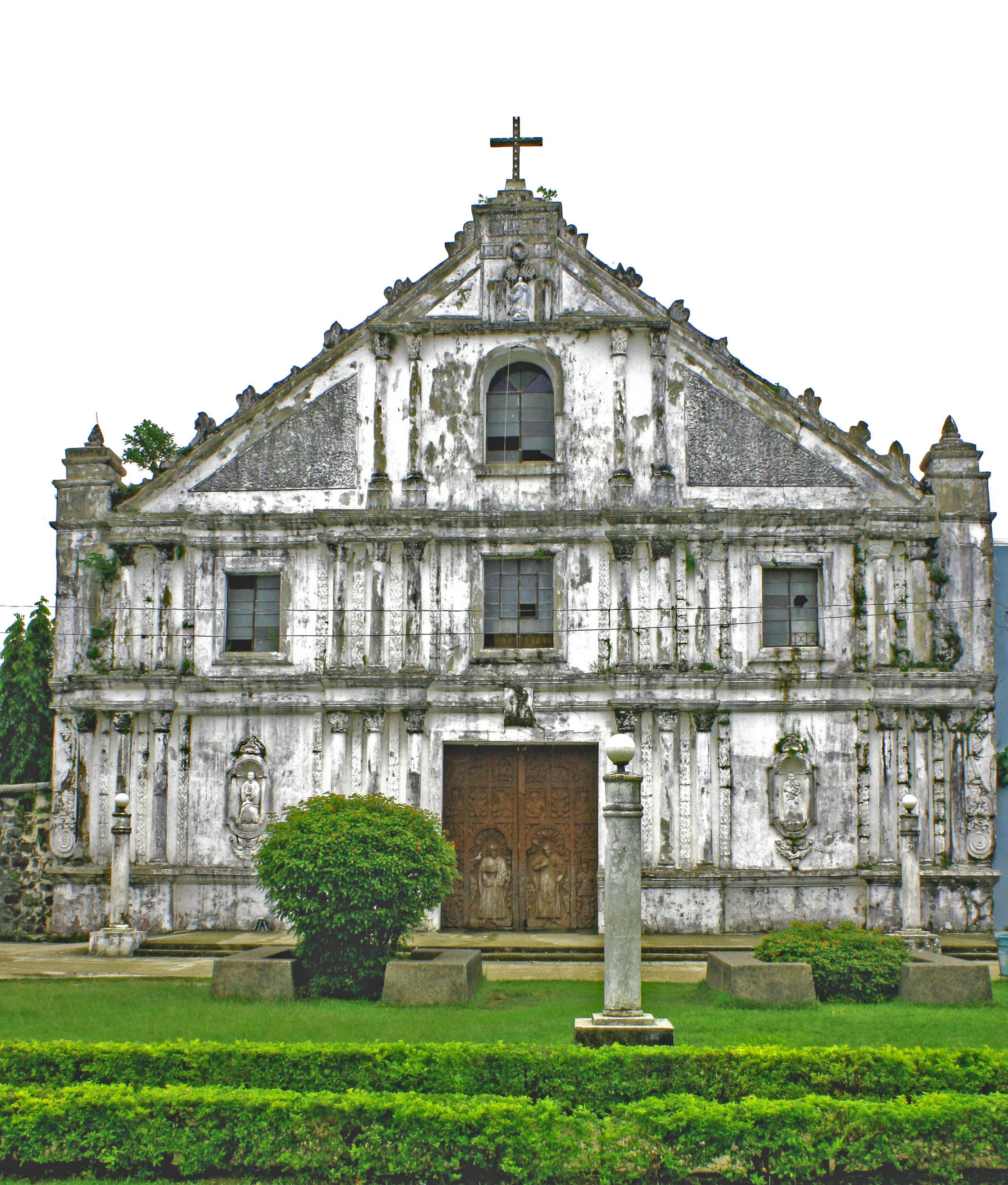 16th Century Immaculate Conception Church, Guiuan, Eastern Samar